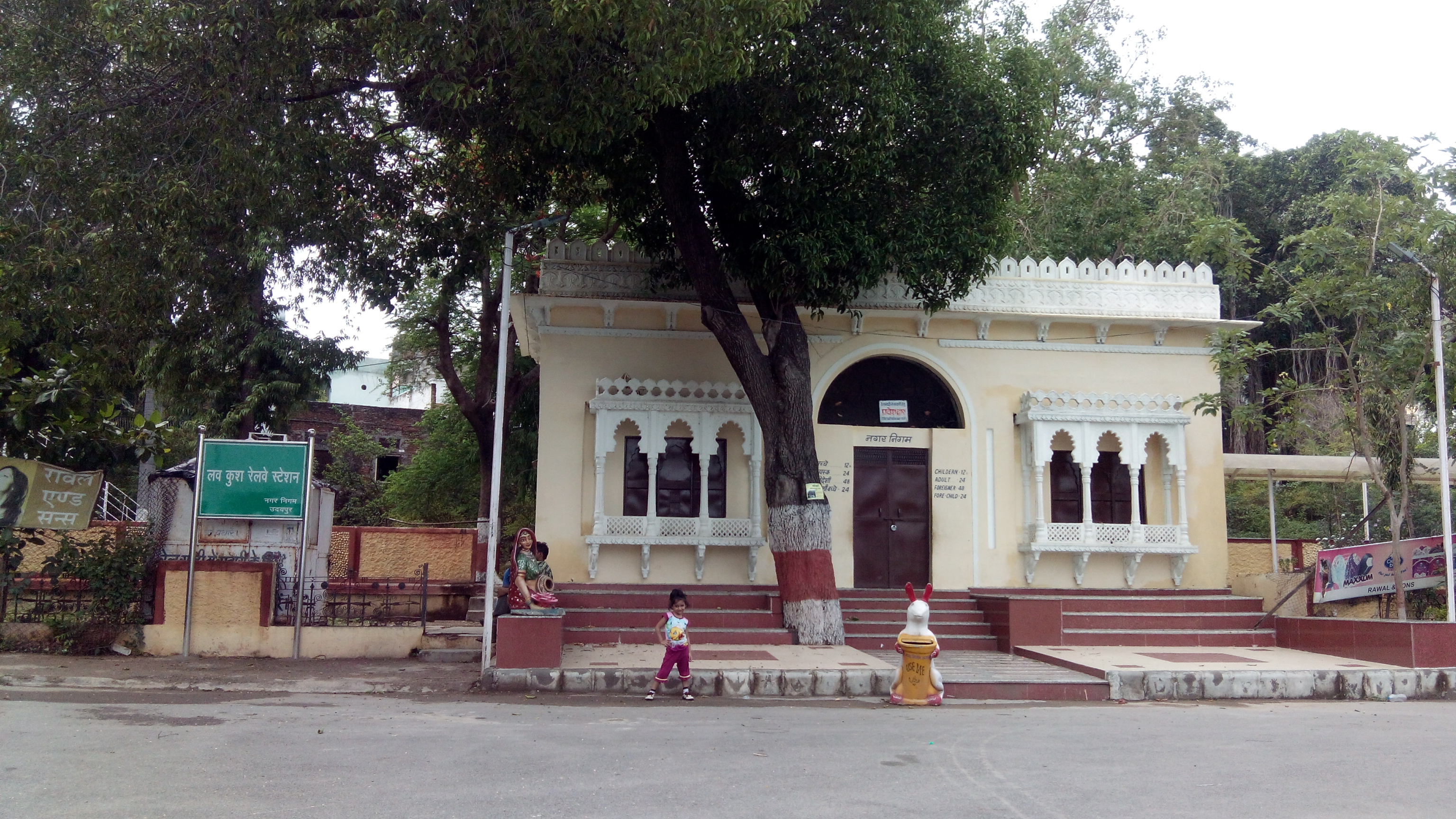 Picture showing the front entrance of the Luv Kush Railway Station, the railway station for the mini train, running in Gulab Bagh Grden in Udaipur.